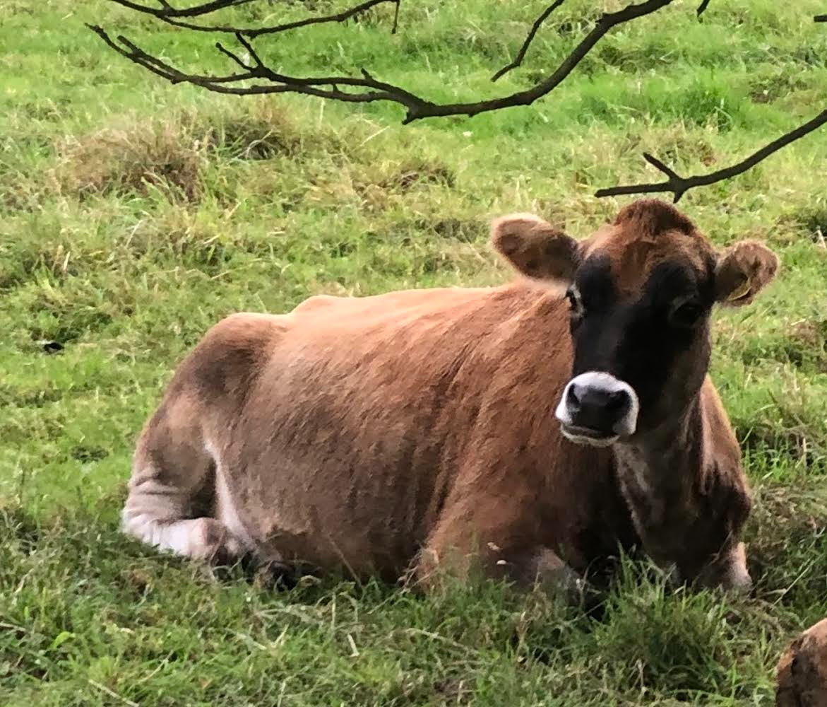 A tawny-colored Jersey with a characteristic white ring around its black nose.